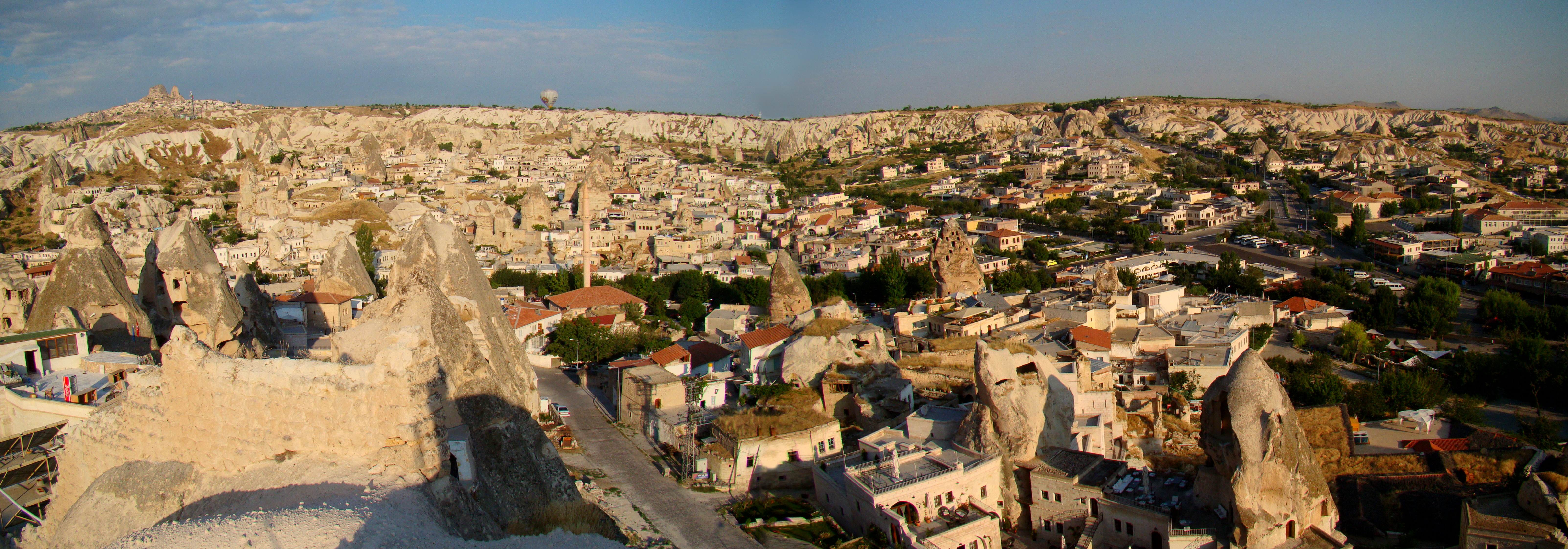 Panorama of Göreme as seen from a hill-top on the south-east side of the town, early in the morning. In the distance a hot air balloon has landed after a sunrise tour. On the right side you can see the open square around Müze Cad where the long-distance buses operate from. The large rock with several "windows" in it to the right of the center of the photo is the Roma Kalesi, the "Roman Castle", a fairy-chimney with a rock-cut Roman Tomb. The main street, Isali Cad, is visible as a green line of trees horizontally across the photo. In the upper left corner of the photo you can see Uchisar, a neighbouring village located around a tall, characteristic rock with many caves inside.